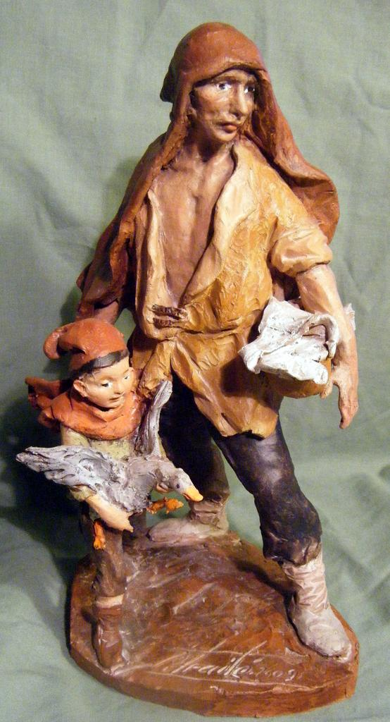 Josep Traité, Father and Son